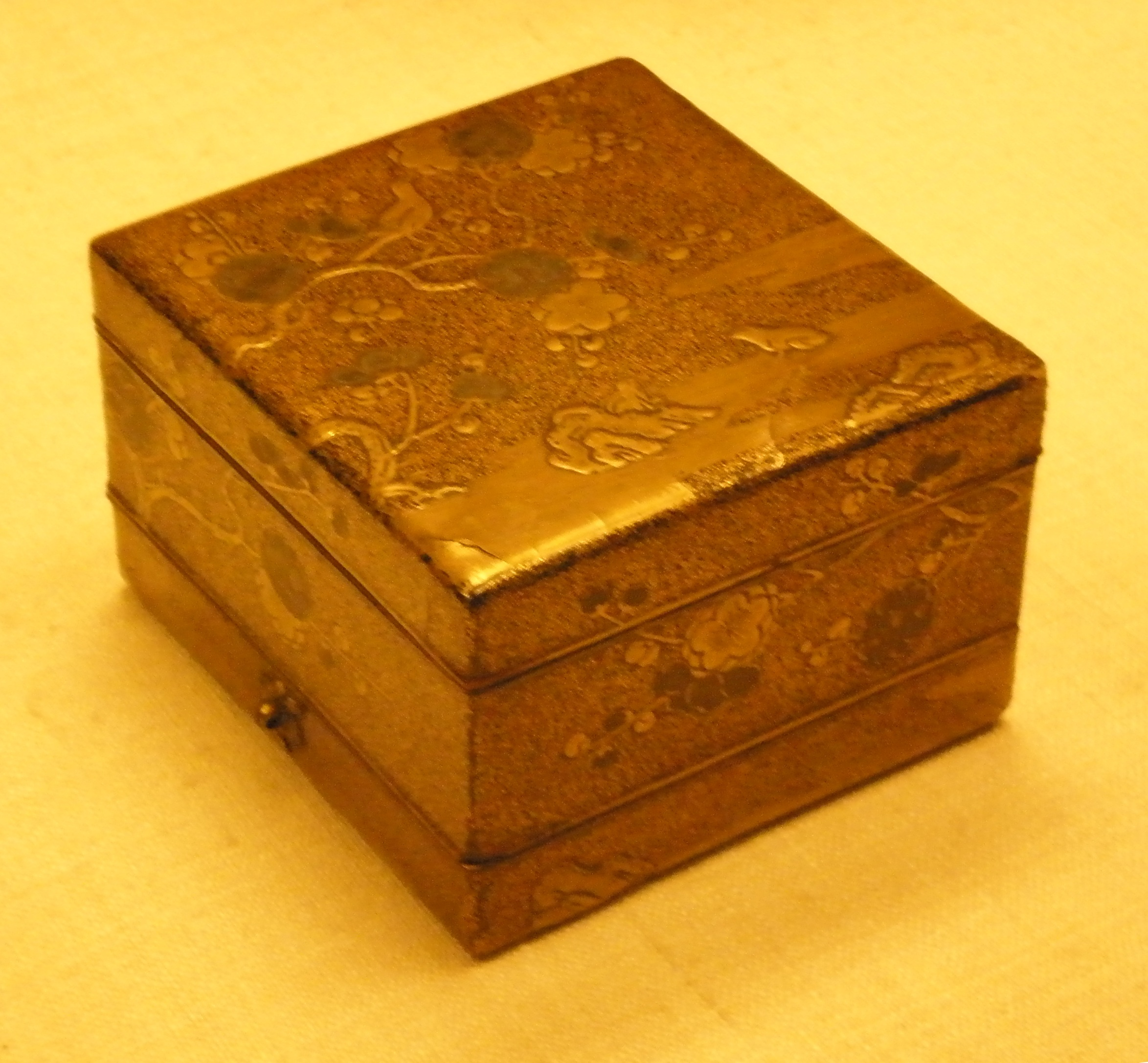 Tiered Box for Incense Utensils lacquer; Japan; probably about 1550-1600 Incense container, wood covered in black lacquer with gold nashiji and takamaki-e lacquer, gilded copper fittings, a design of plum blossoms by a stream with frogs and a warbler (uguisu), Japan, probably about 1550-1600. Alexander Gift Collection ID: W.160-1916 This photo was taken as part of Britain Loves Wikipedia in February 2010 by David Jackson.